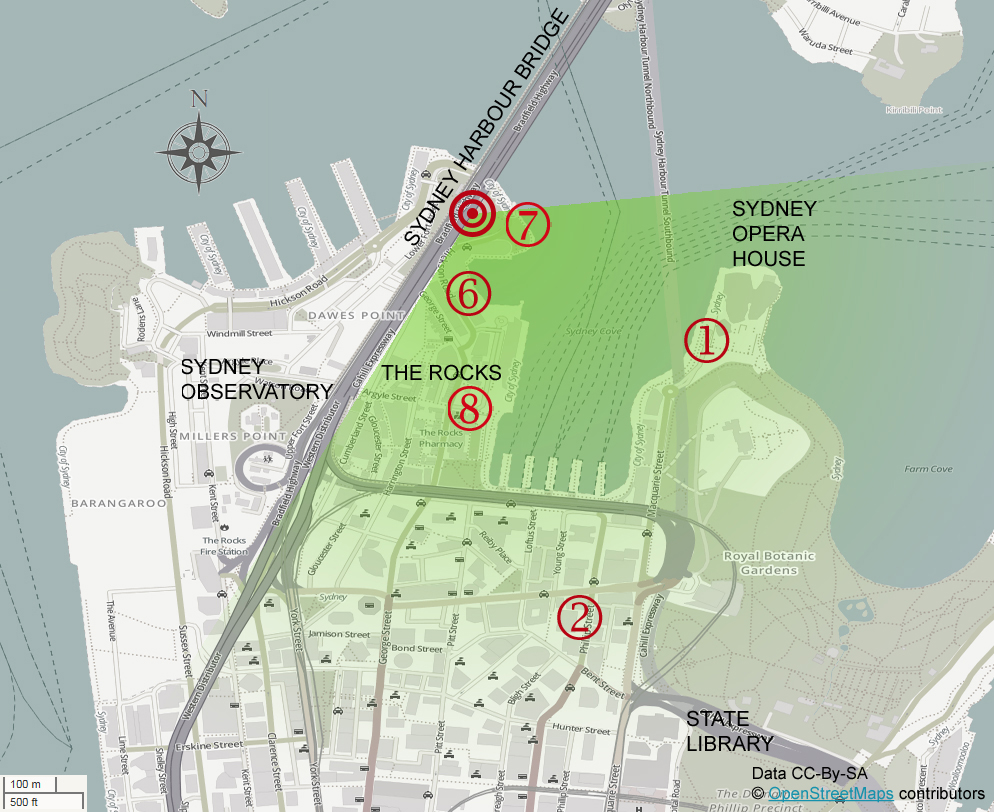 A map locating the images on the Sydney Cove punchbowl in relation to the panoramic guide on Sydney punchbowls